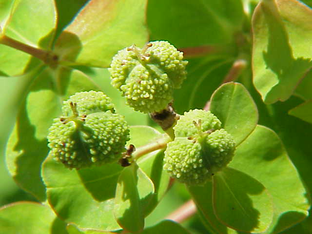 Species: Euphorbia palustris Family: Euphorbiaceae Image No. 1